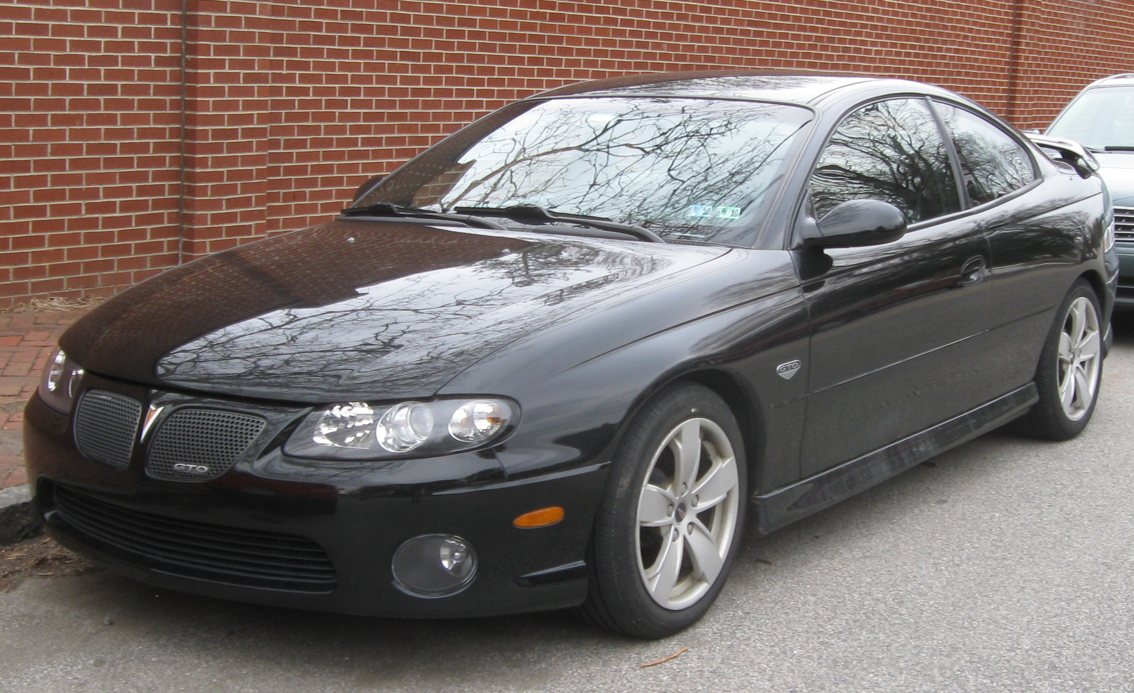 2004 Pontiac GTO photographed in Annapolis, Maryland, USA.